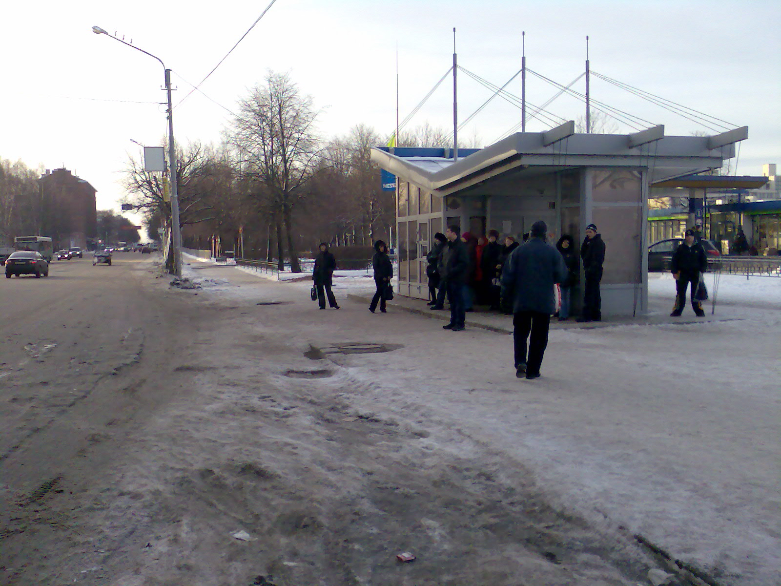 «Bus station» bus stop, Vyborg, Russia.